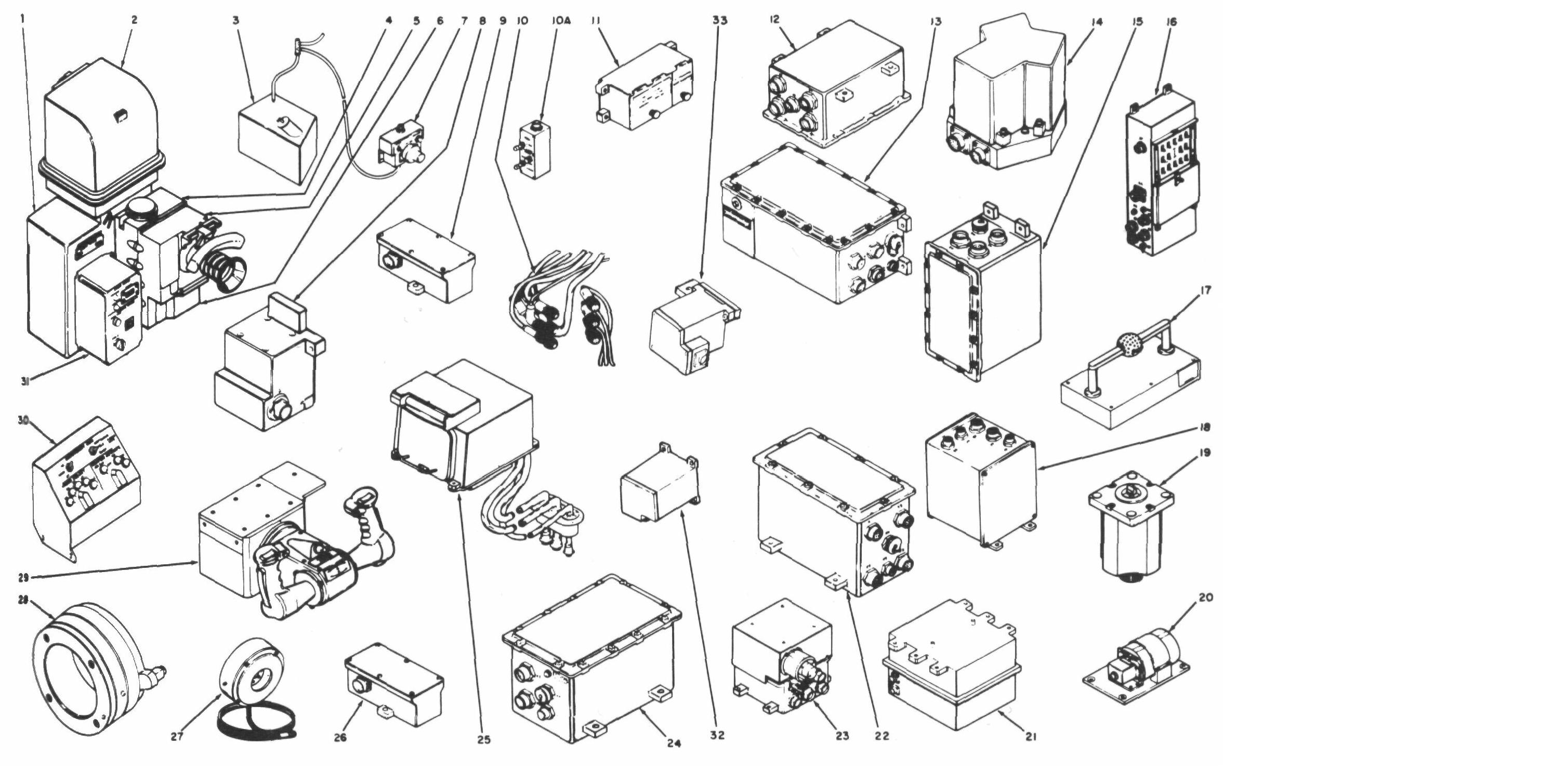 MBT-70 Fire Control System components.